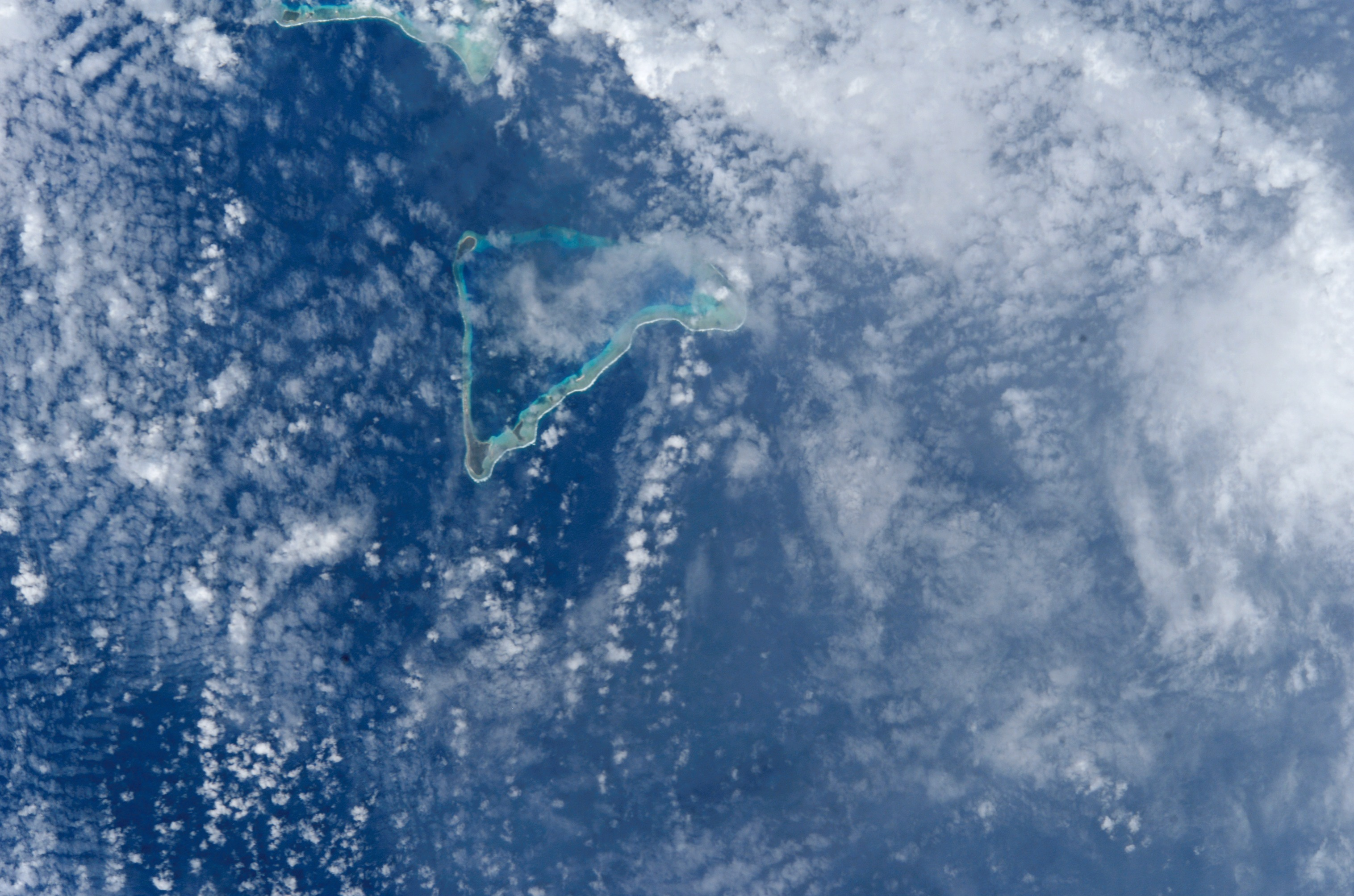 Utirik (also known as Utrok) Atoll, Marshall Islands